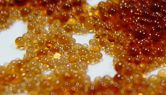 Ion Exchange resin nodules, photographed by Adam Smith